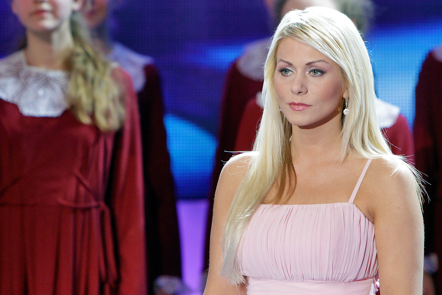 Singer Vaida Genytė